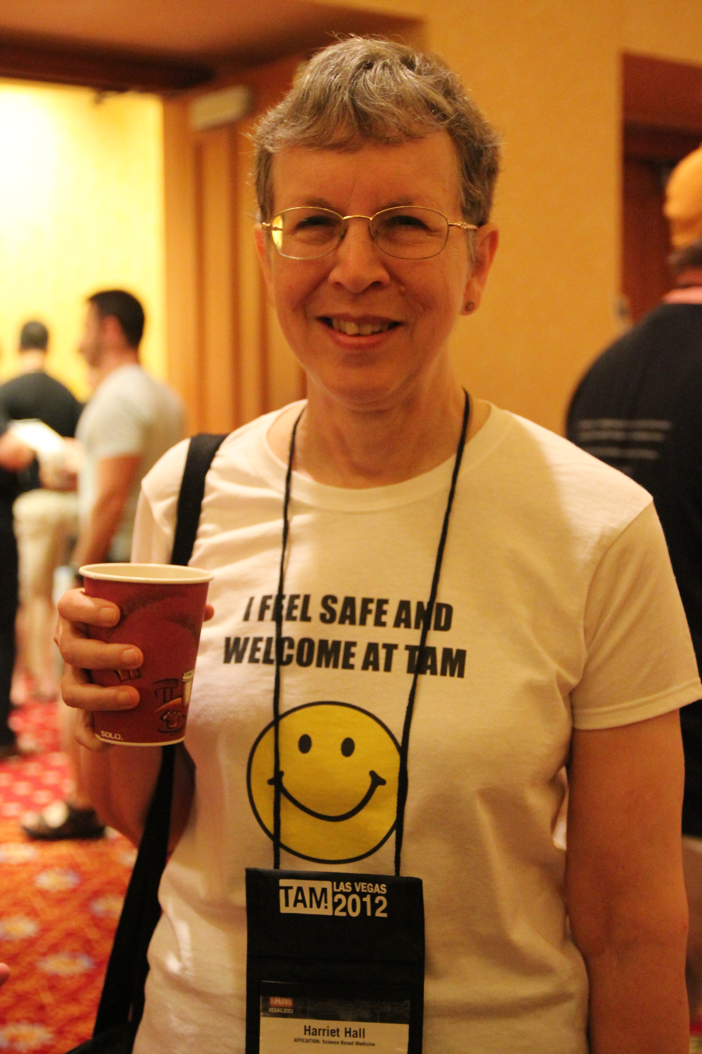 Harret Hall at TAM 2012. Back of shirt says "I'm a skeptic, not a "skeptchick" not a "woman skeptic" just a skeptic".